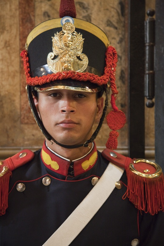 Member of the Regimiento de Granaderos a Caballo General San Martín